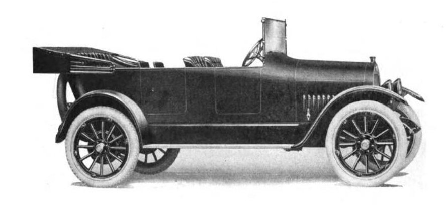 A photo of a Jeffery Model 462 7-passenger Touring Car from page 68 of the cited journal From Google Books: Title Automobile year book Publisher Automobile department of McClure's magazine, The McClure Publications, inc., 1916 Original from the University of Michigan Digitized Aug 10, 2006